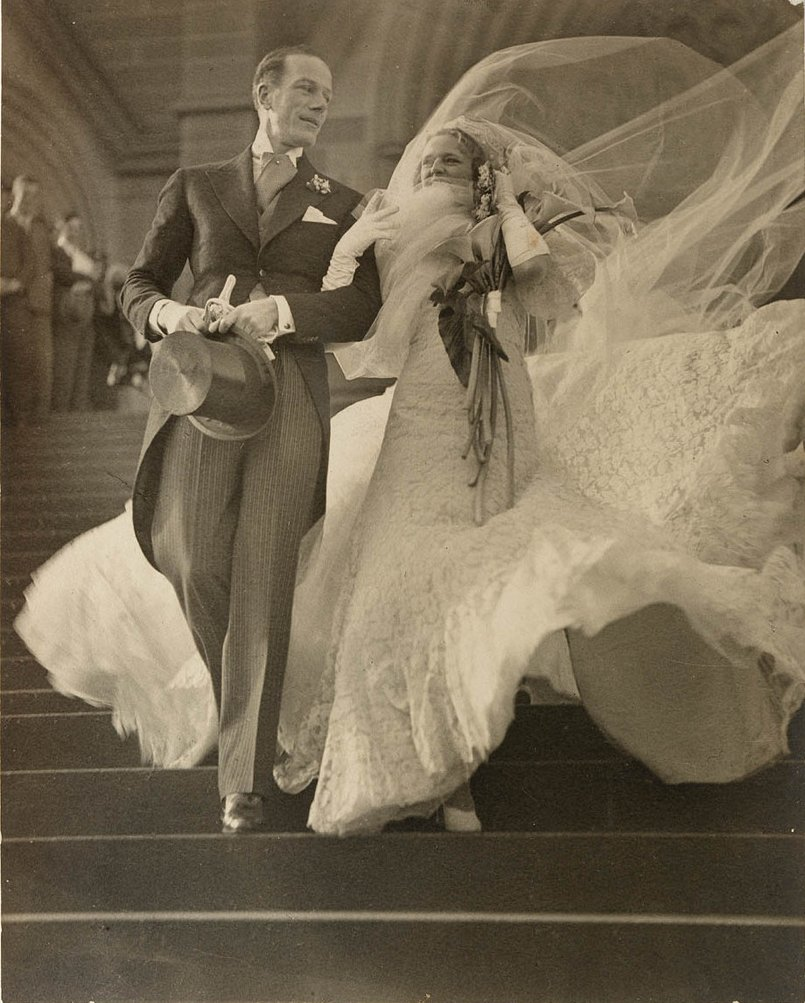 This is an image of the musical stars, Madge Elliot and Cyril Ritchard in their wedding at St Mary's Cathedral, Sydney on 16th September 1935.